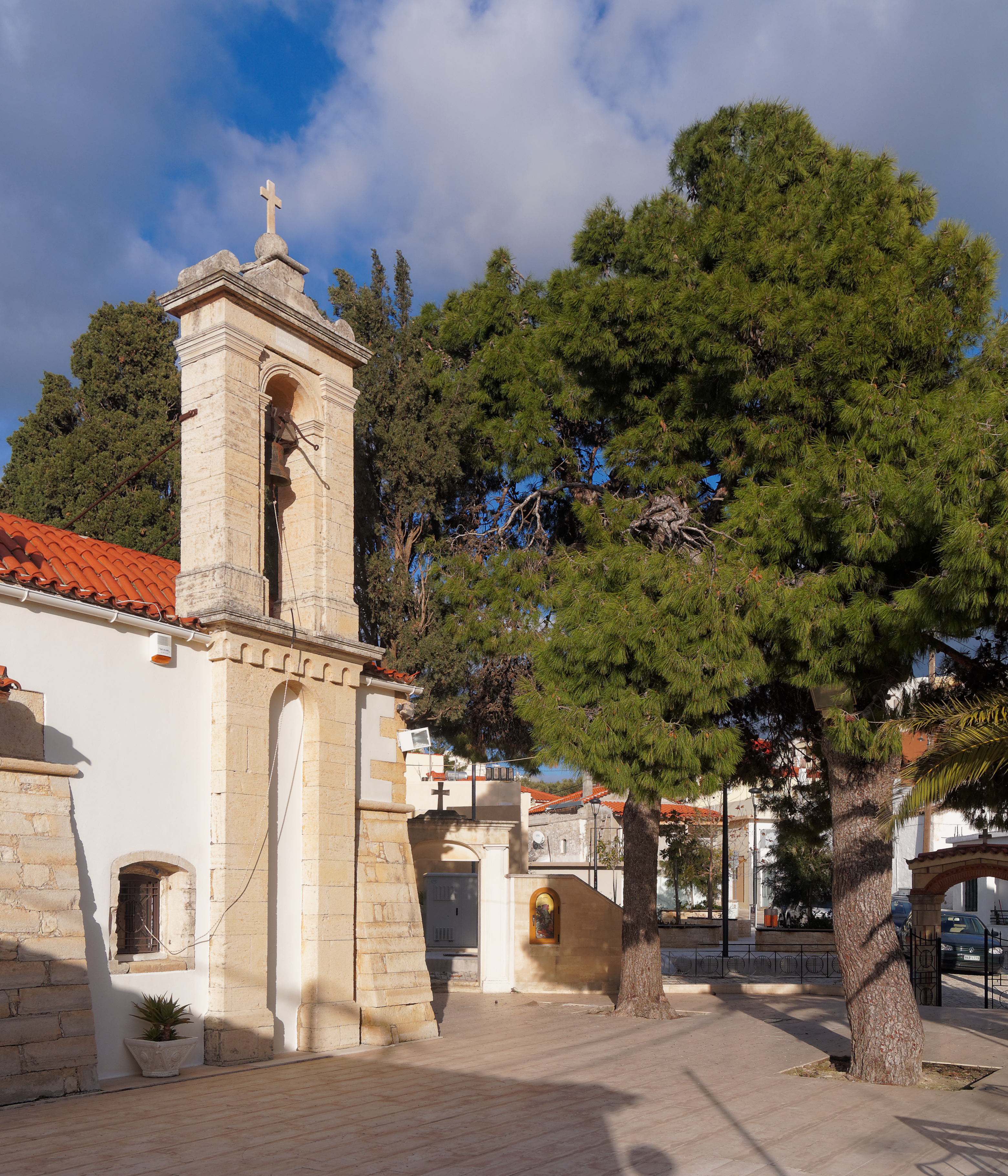 The court of the church of Saint George, Vasilies, Heraklion.